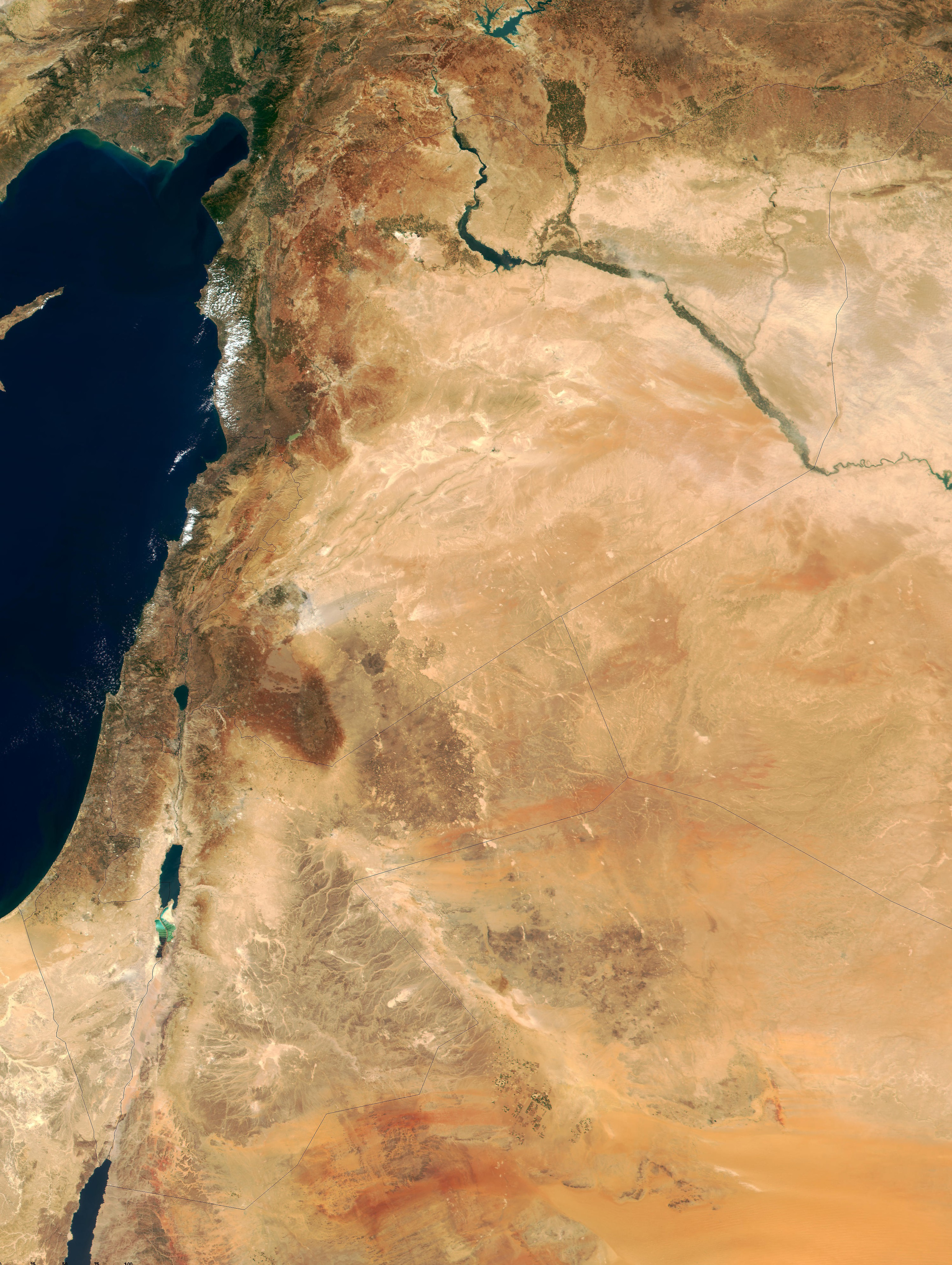 This true-color image of the region was taken on September 10, 2000, by the MODerate-resolution Imaging Spectroradiometer (MODIS) flying aboard NASA's Terra spacecraft. The image shows the lands of Israel along the eastern shore of the Mediterranean Sea, with the countries of Jordan to the southeast and Syria to the Northeast. Jerusalem is Israel's capital city and Amman is the capital of Jordan. The region known as the West Bank lies between the two countries. Running from north to south, the Jordan River links the Sea of Galilee to the Dead Sea. Click the image to enlarge it, and to see the borders drawn in. Image courtesy Jacques Descloitres, MODIS Land Group, NASA GSFC